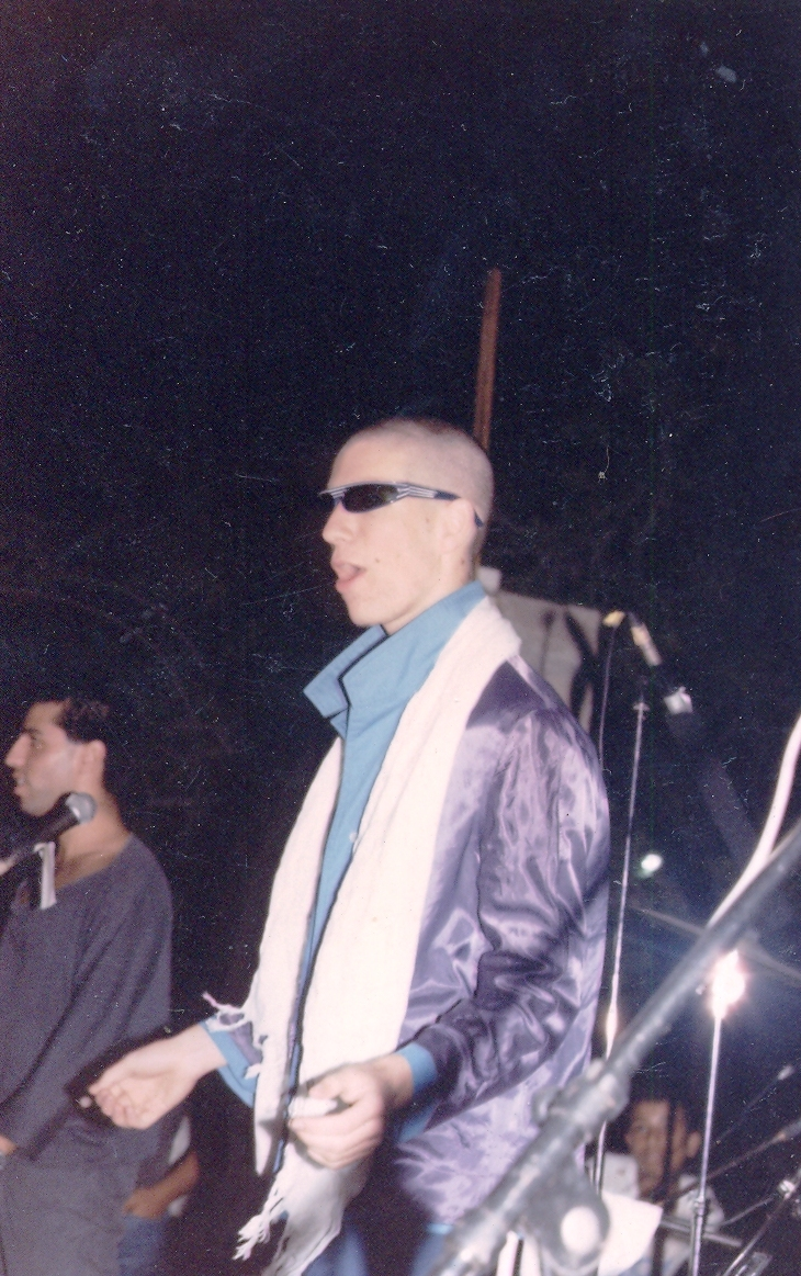 The Top Hat Carriers concert at Acco Festival, in 1987 or 1988; L-R: Tamir Albert, Yishai Adar